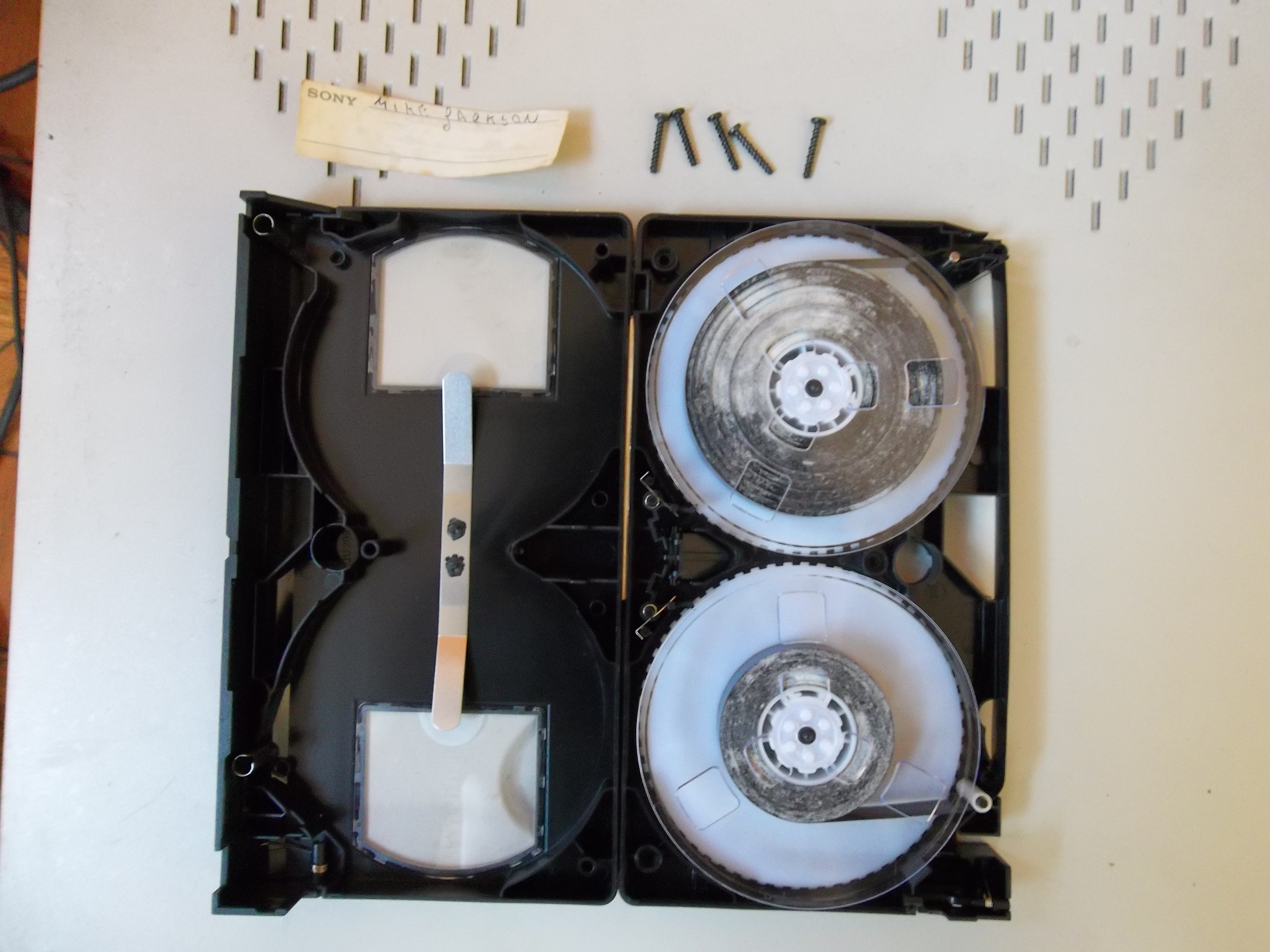 A "Mike Jackson" VHS tape that was black, but turned white due to the mold that grown over it. A tape in this level of degradation requires too much cleaning work, and it's easier to throw it away and get another one, on good state of preservation.